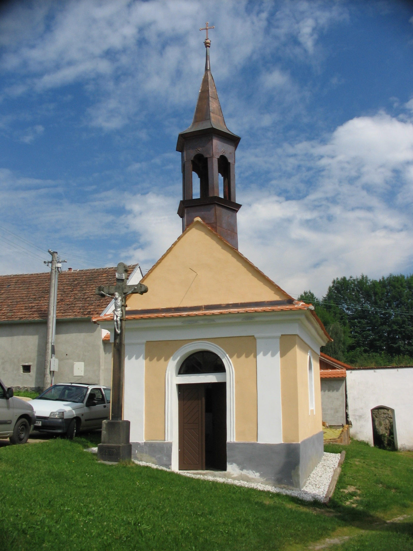 Chapel in Švejcarova Lhota, Strakonice District, Czech Republic